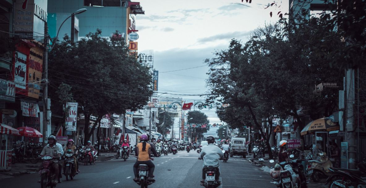 Tran Hung Dao Street, Kon Tum City, Vietnam